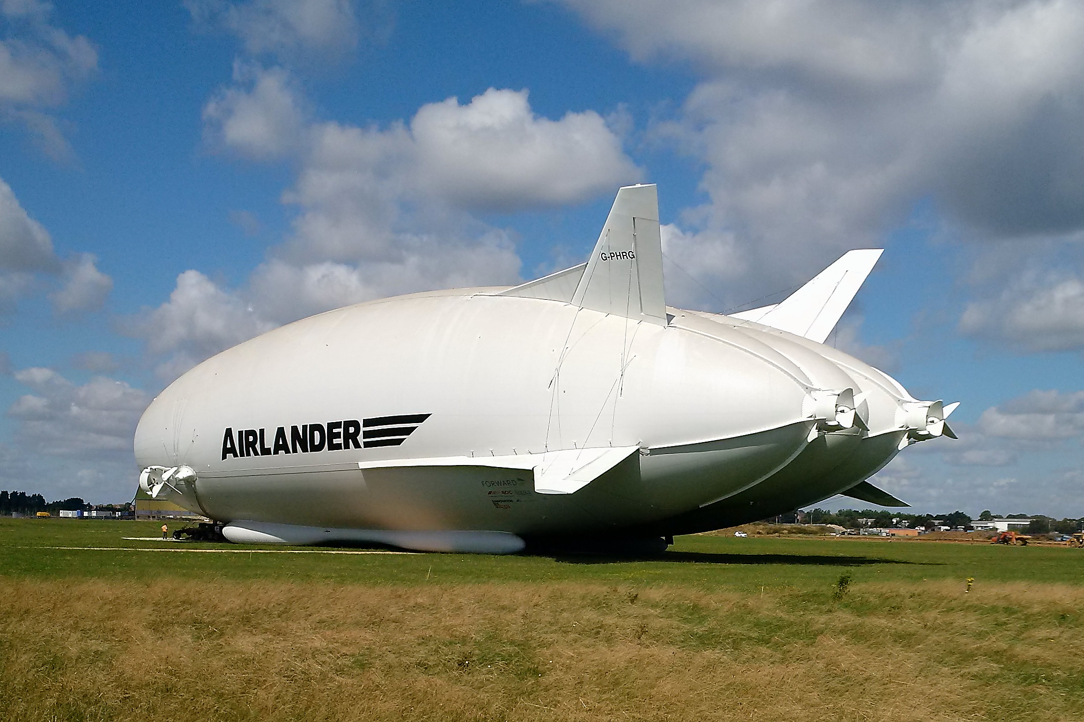 Taken on smartphone, sorry re quality